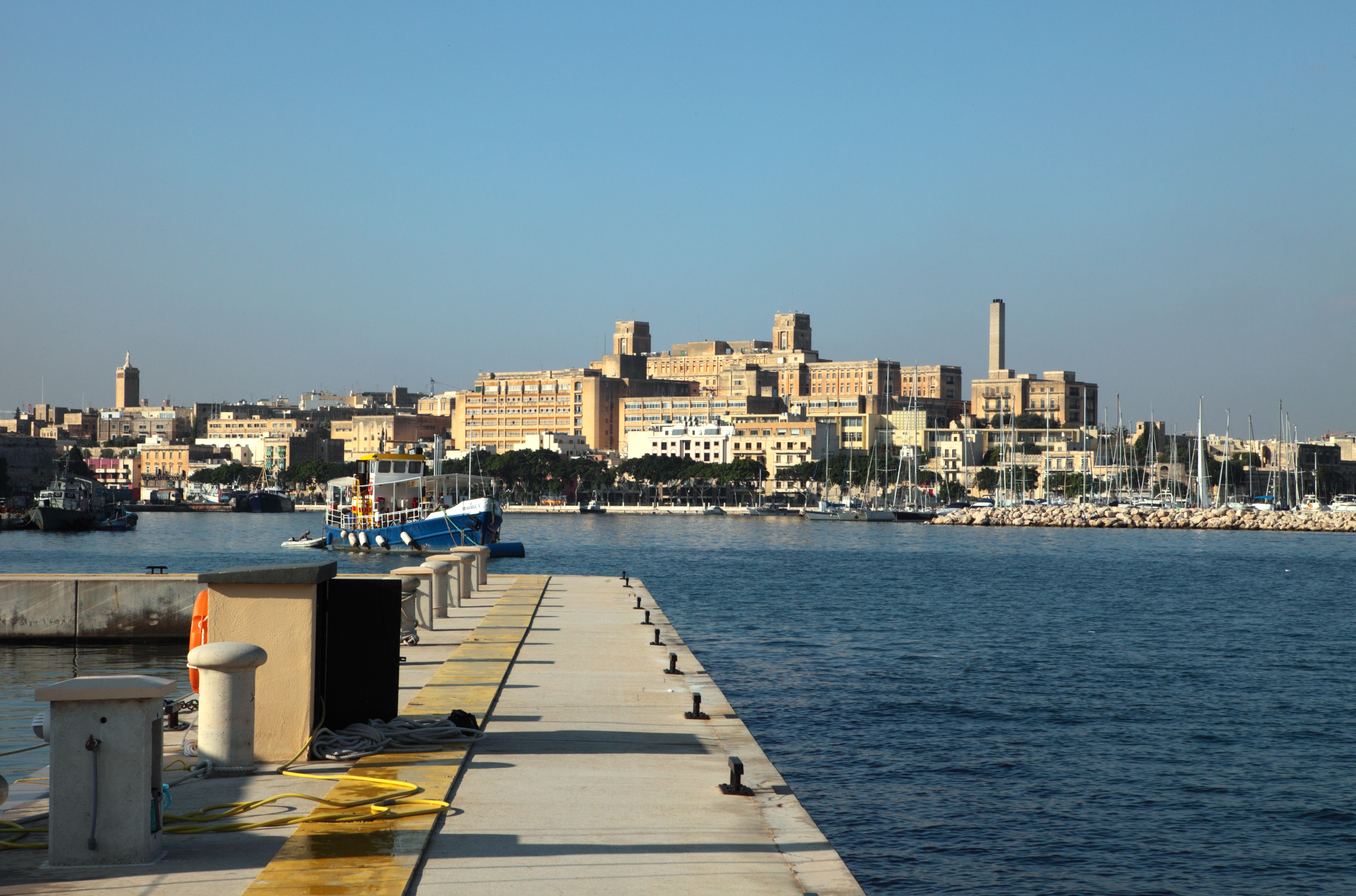 St. Luke's Hospital in Pietà, seen from the marina in Ta' Xbiex, Malta